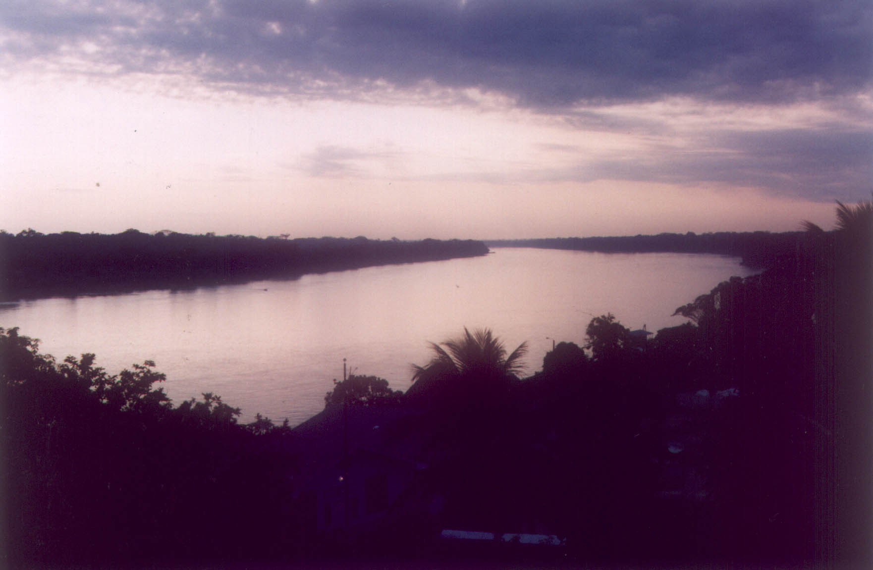 Dusk on the Madre de Dios River. The swift tropical night falls.